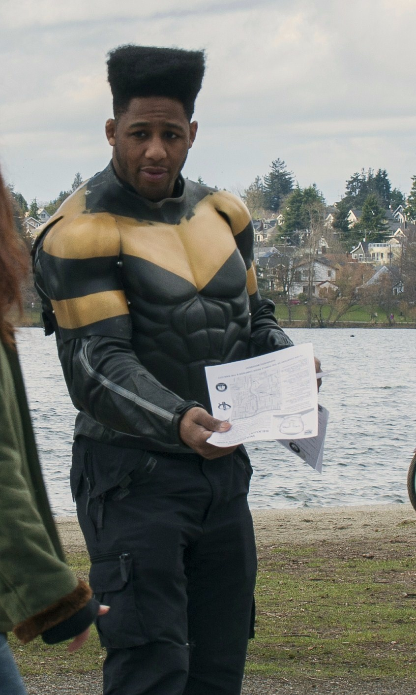 Phoenix Jones and members of the Rain city super hero movement pass out flyers with a description of a serial predator who may be in the north Seattle area. Greanlake, WA. 2013